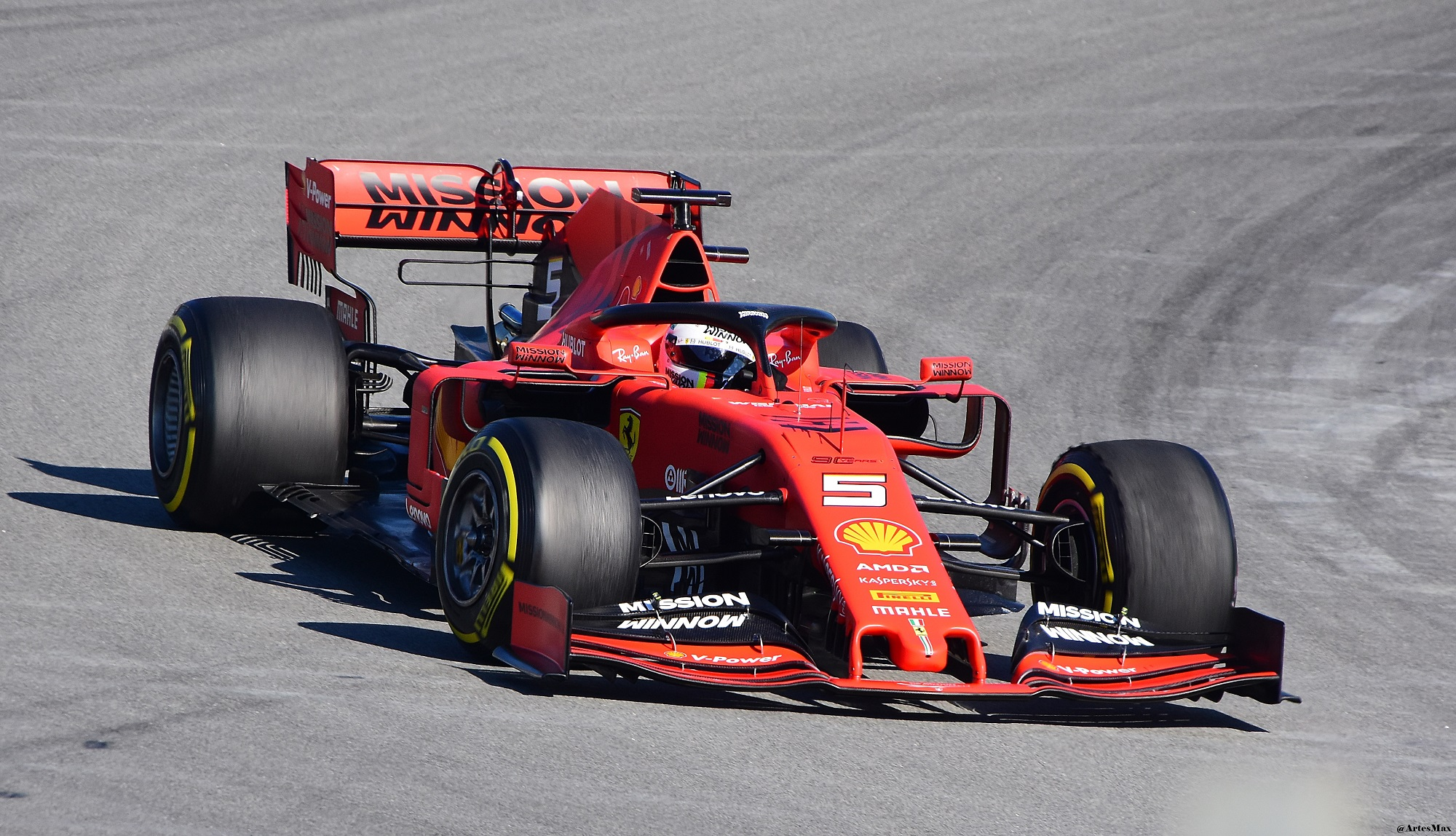 2019 Formula One tests Barcelona, Vettel.